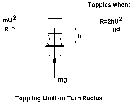 Toppling calculation